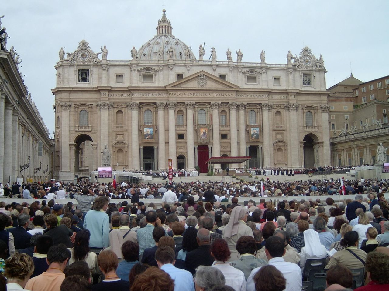 Canonisation of Josef Freinademetz, Daniele Comboni and Arnold Janssen by John Paul II, Rome, 5 October 2003